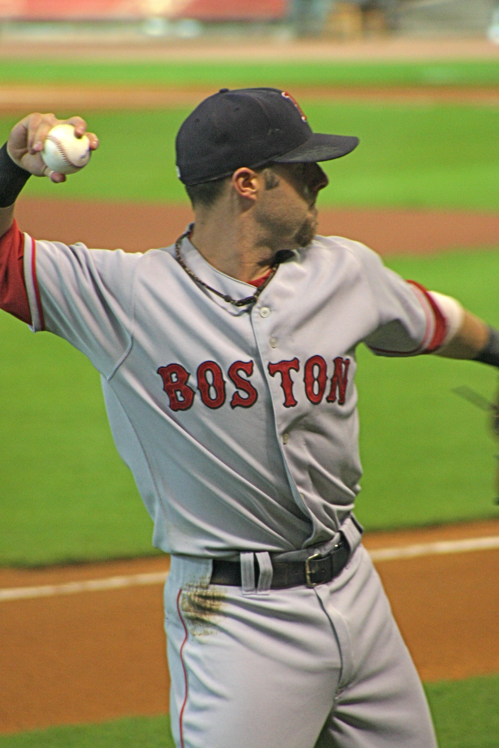 Description Dustin in Houston DateJune, 2008SourceI created this work entirely by myself.AuthorPhreddieH3 (talk) 02:53, 24 July 2008 . . PhreddieH3 . . 2,048×3,072 (1.95 MB) Dustin in Houston